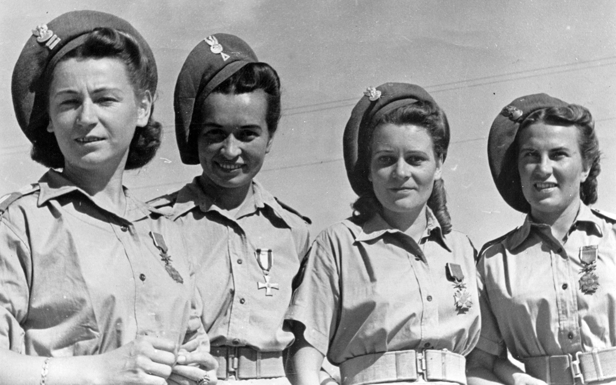 Four decorated Polish PSK Girls